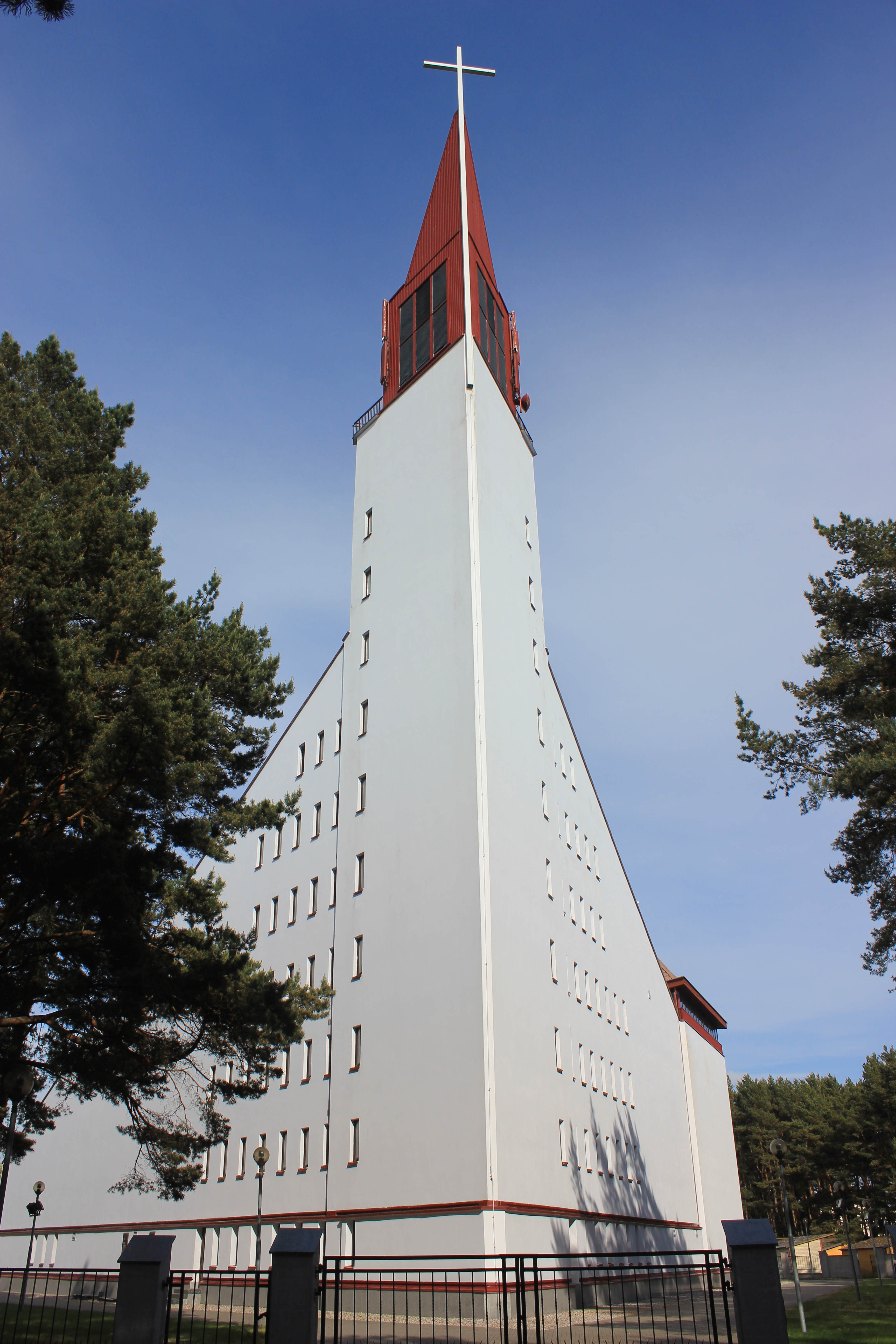 Šventoji - Church of Virgin Mary Queen of the Sea